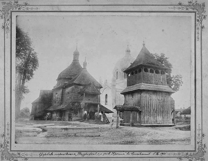 Old (wooden) and new churches of Exaltation of the Holy Cross in Stenyatin, Ukraine; photo 1901